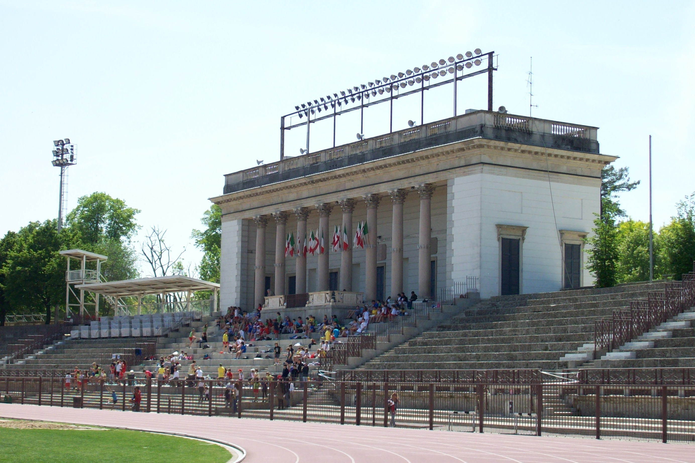 Arena Civica “Gianni Brera” in Milan: the main stand